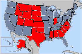 Presidential elections results 1996